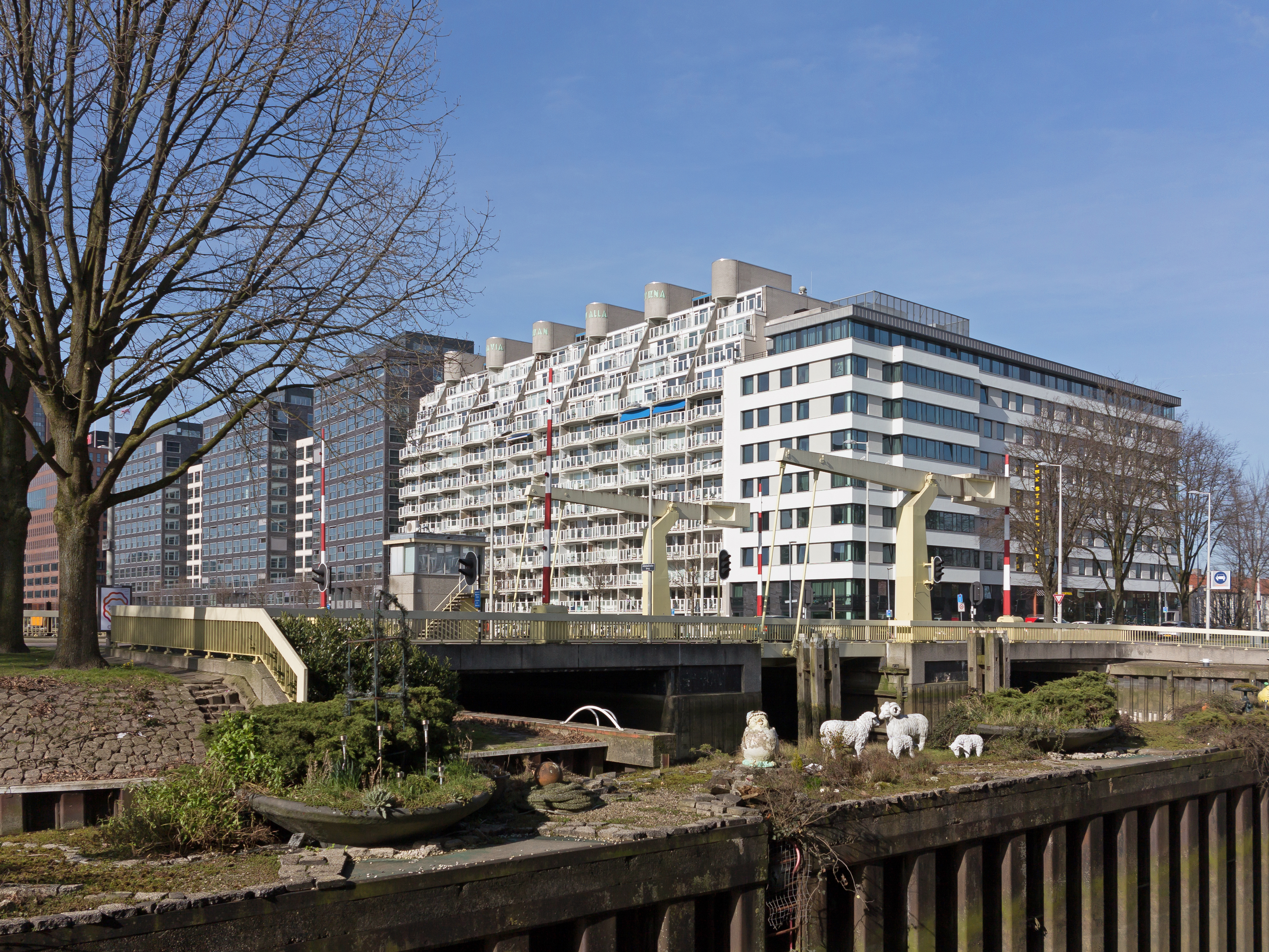 Rotterdam, drawing bridge: de Admiraliteitsbrug